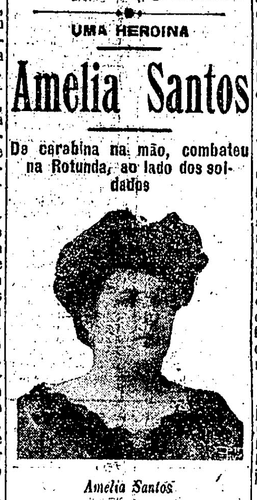 Photograph of "heroine" Amélia Santos, who fought alongside the men during the 5 October 1910 revolution, in Portugal. Published on issue 106 of newspaper "A Capital" (14 October 1910).